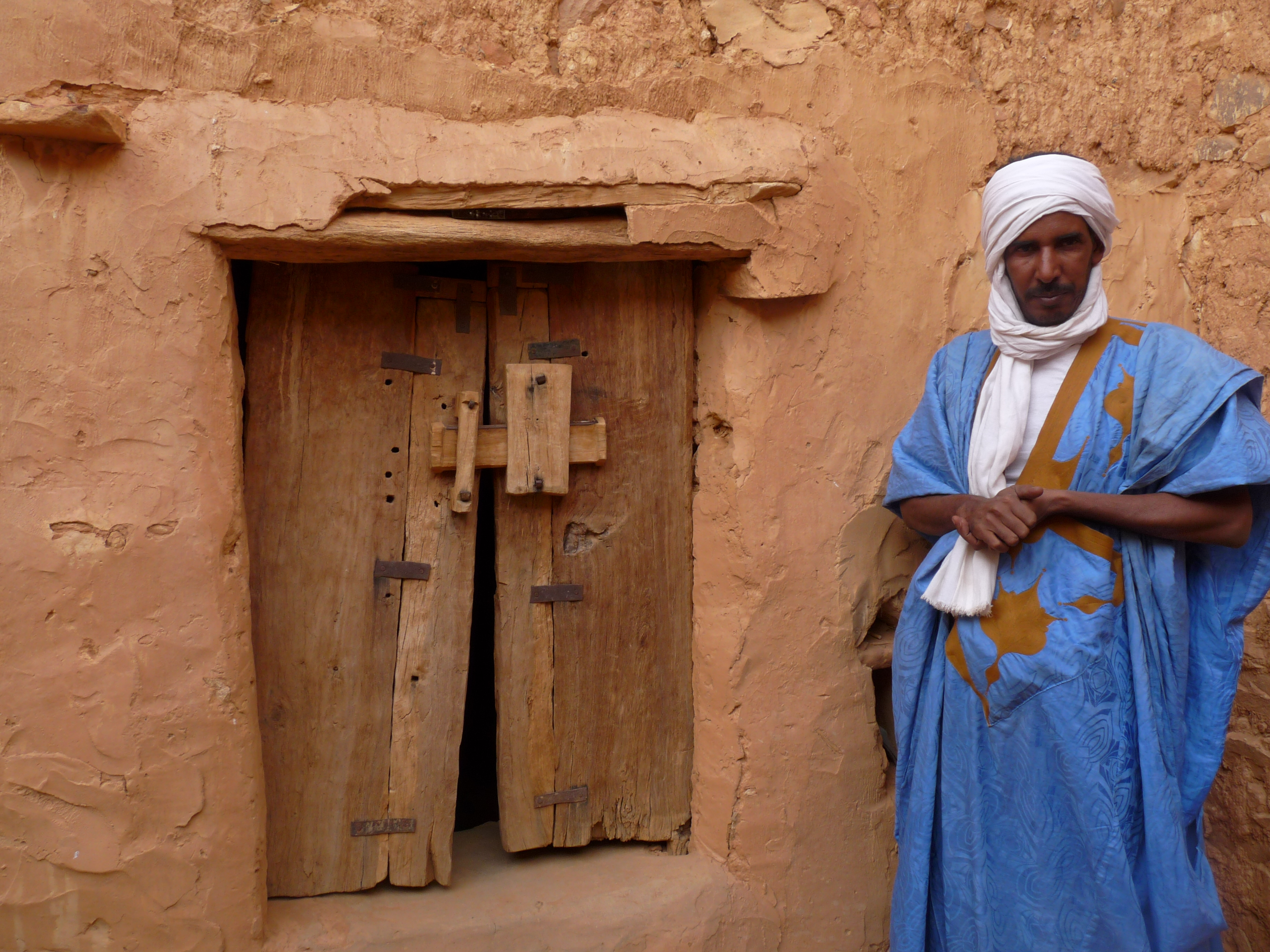 Visiting Hamoni library in Chinguetti (Mauritania)